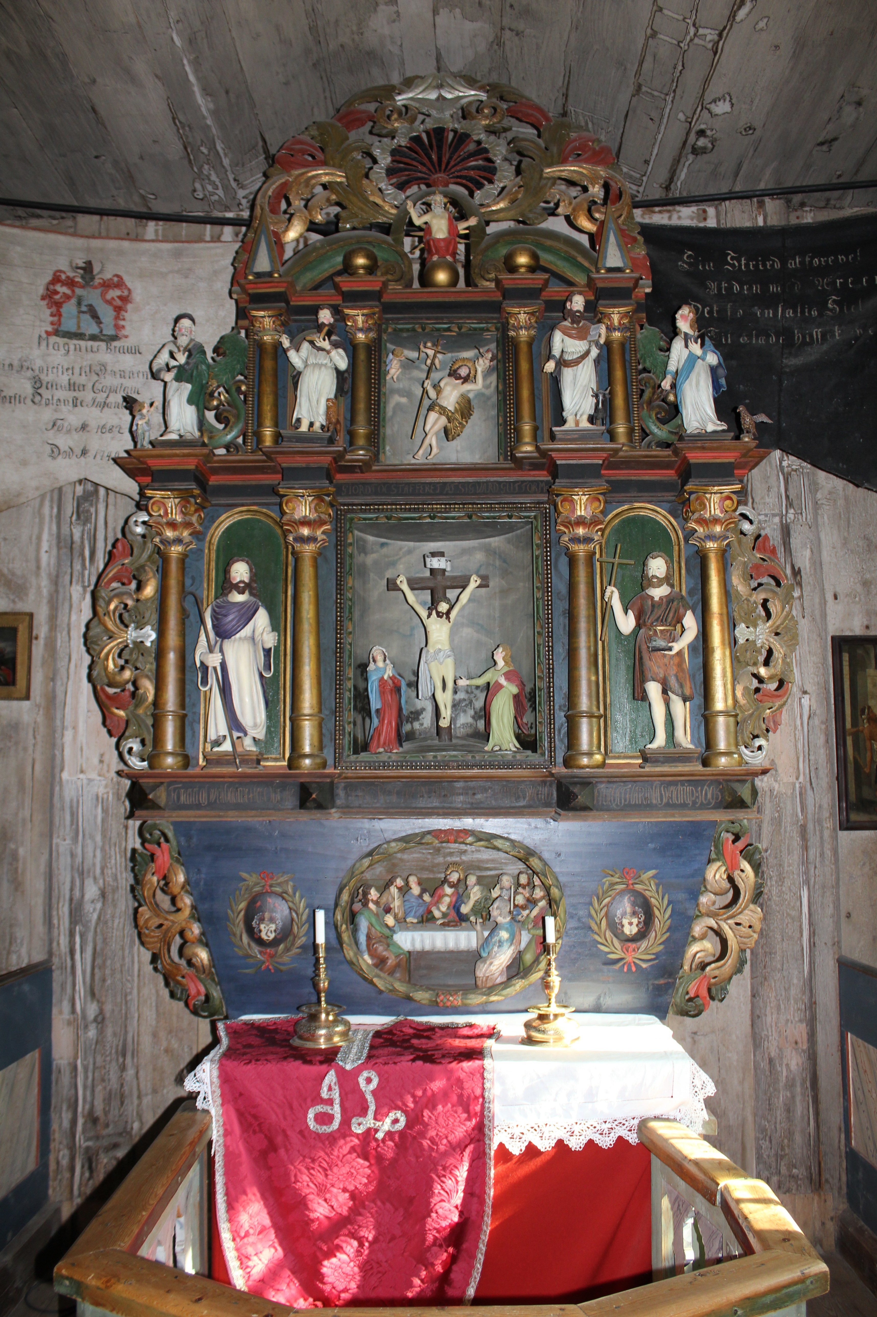 The altarpiece at the stave church at Maihaugen country museum, Lillehammer, Norway.